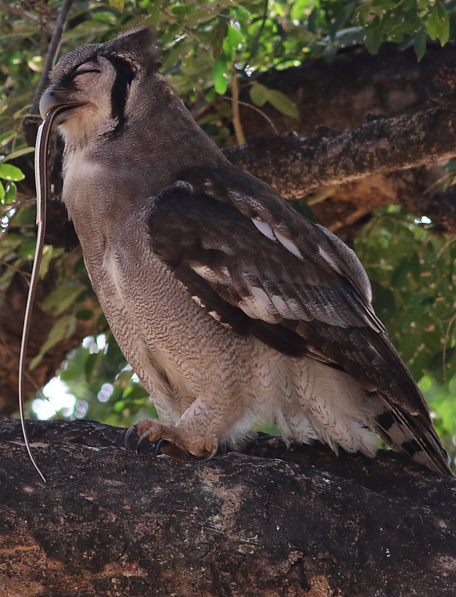 Verreaux's eagle-owl, or giant eagle owl, Bubo lacteus eating a snake at Pafuri, Kruger National Park, South Africa